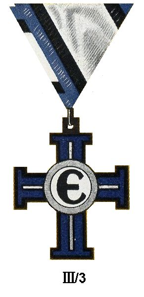 Cross of Liberty Estonia 1918